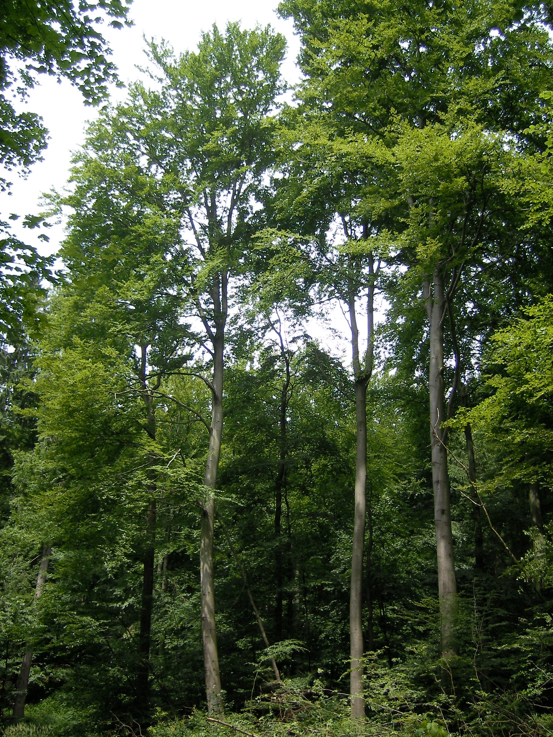 Fagus sylvatica